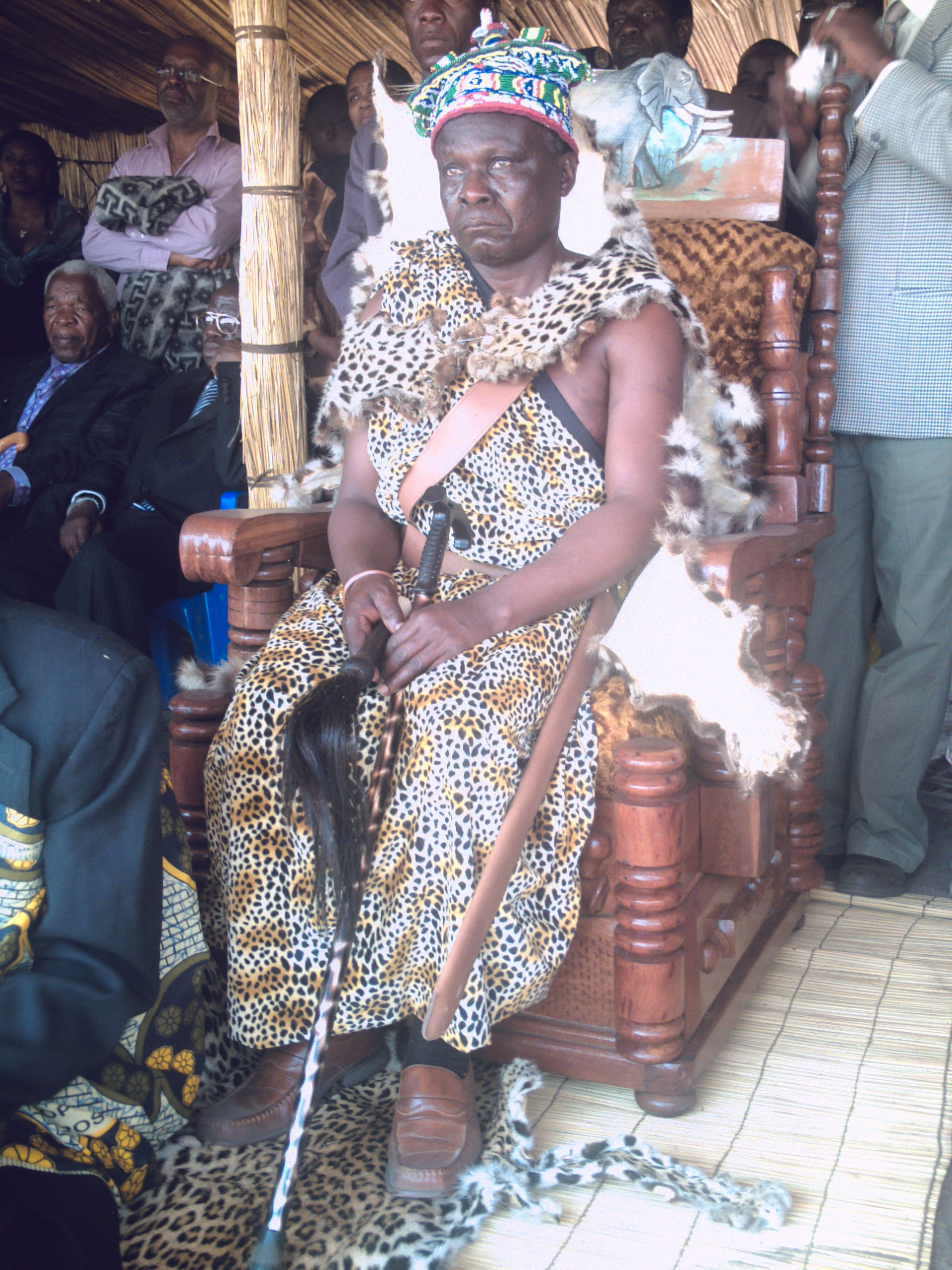 His Majesty, King Mbandu III Mbandu Lifuti at His coronation and The mbunda Kingdom restoration in Lumbala Nguimbo, Moxico Province, Angola.